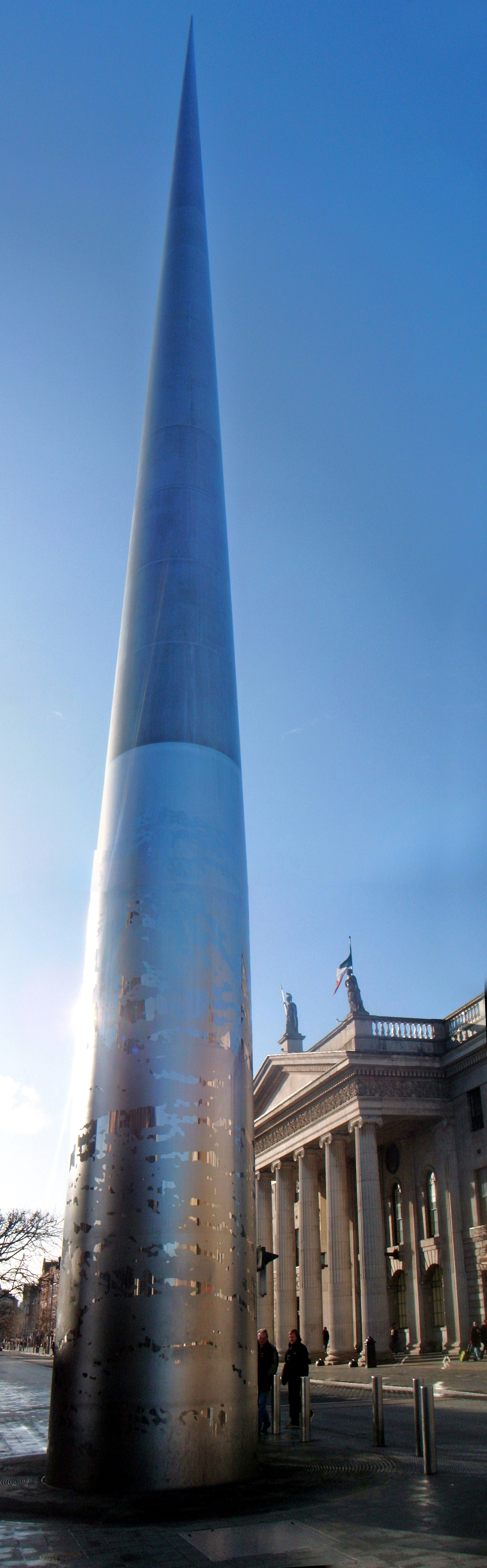 The Spire O'Connel St Dublin, looking towards the Liffey